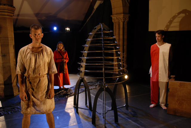 Kevin Noe and the Pittsburgh New Music Ensemble perform "Just Out of Reach" at the Edinburgh Fringe Festival.